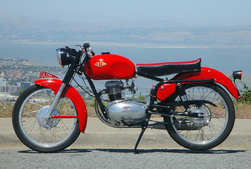 Photo of my 1954 Gilera 150 Sport taken in 2005 in San Carlos, CA.